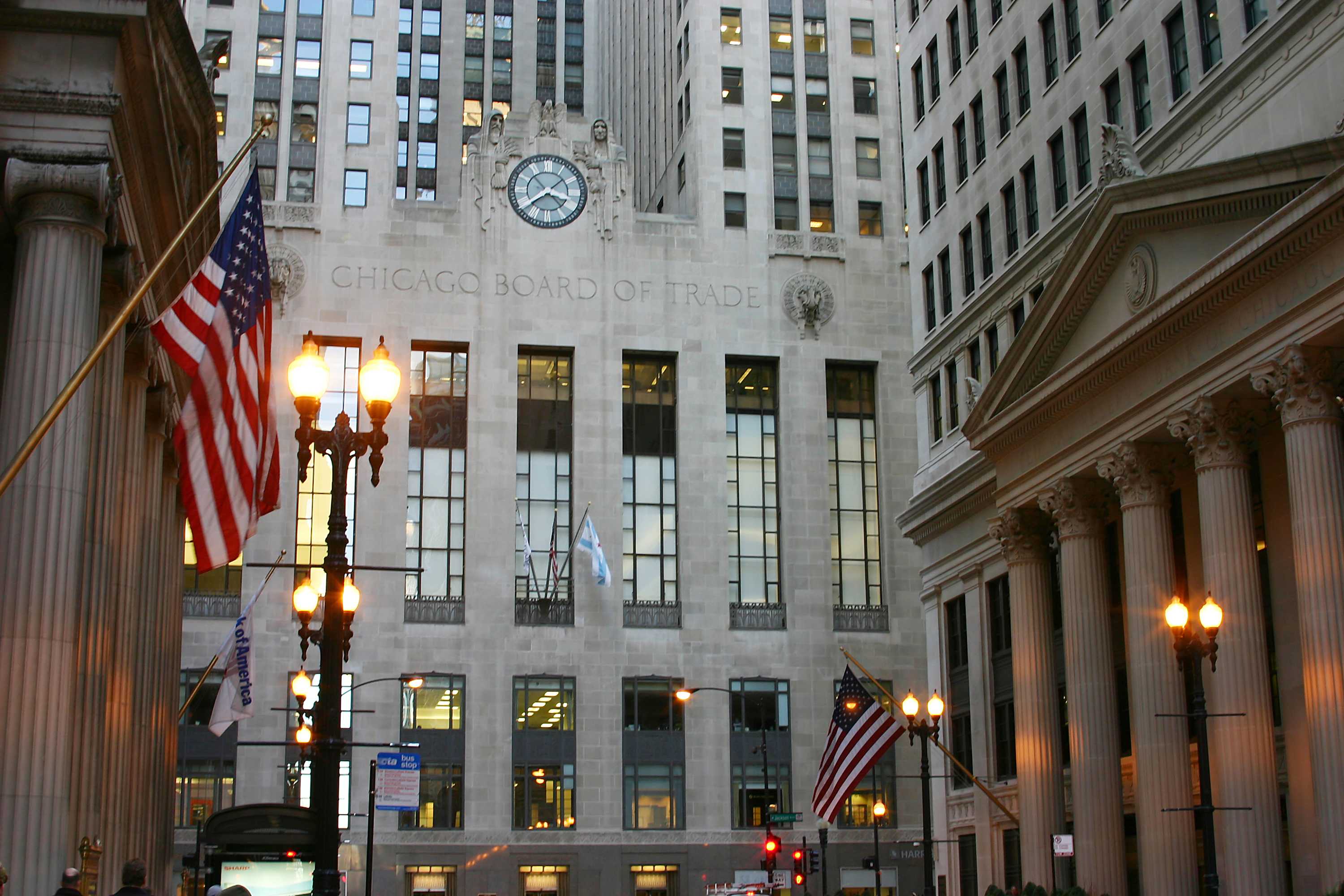 Chicago Board of Trade (November 2008)